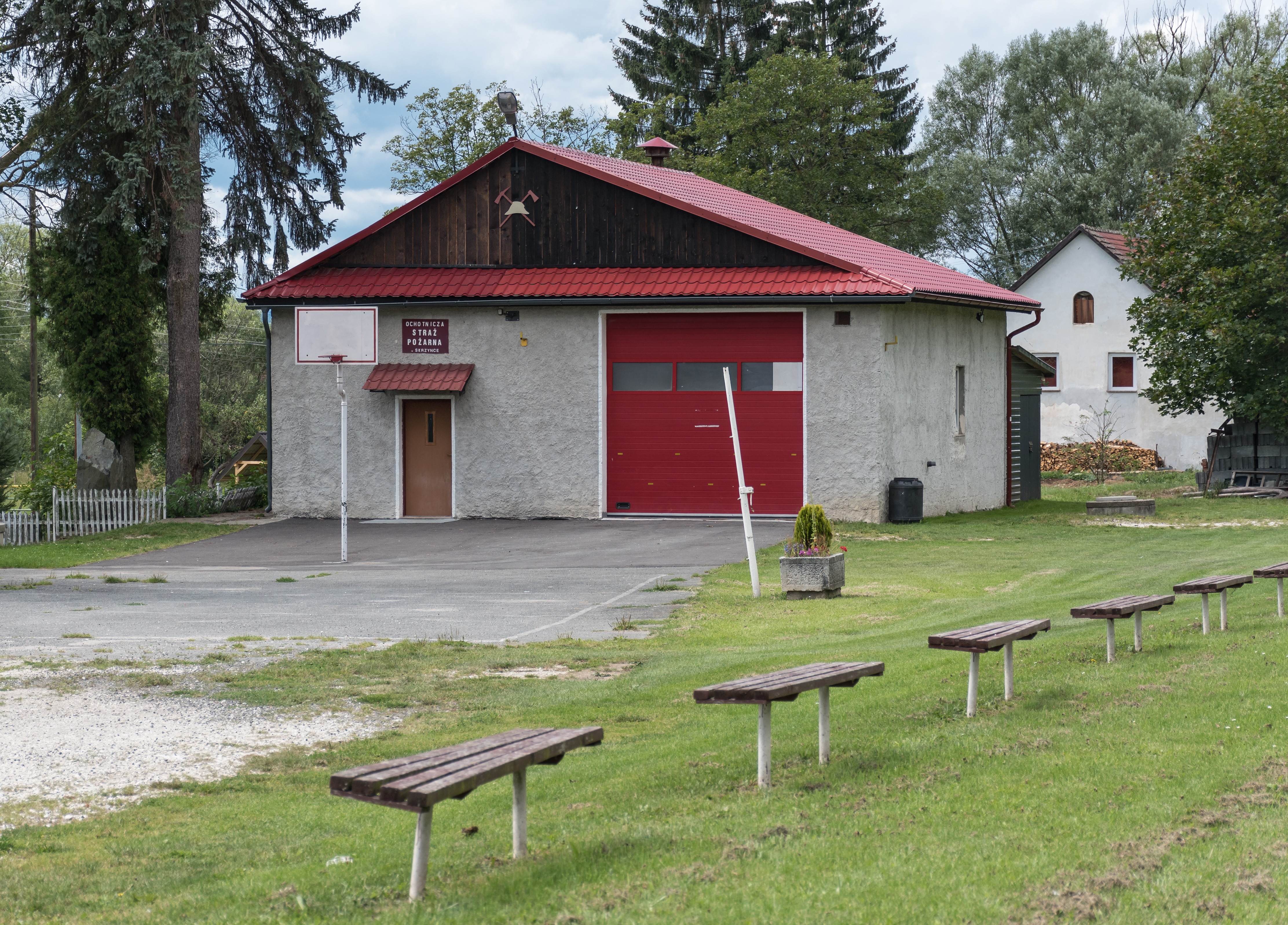 Fire station in Skrzynka